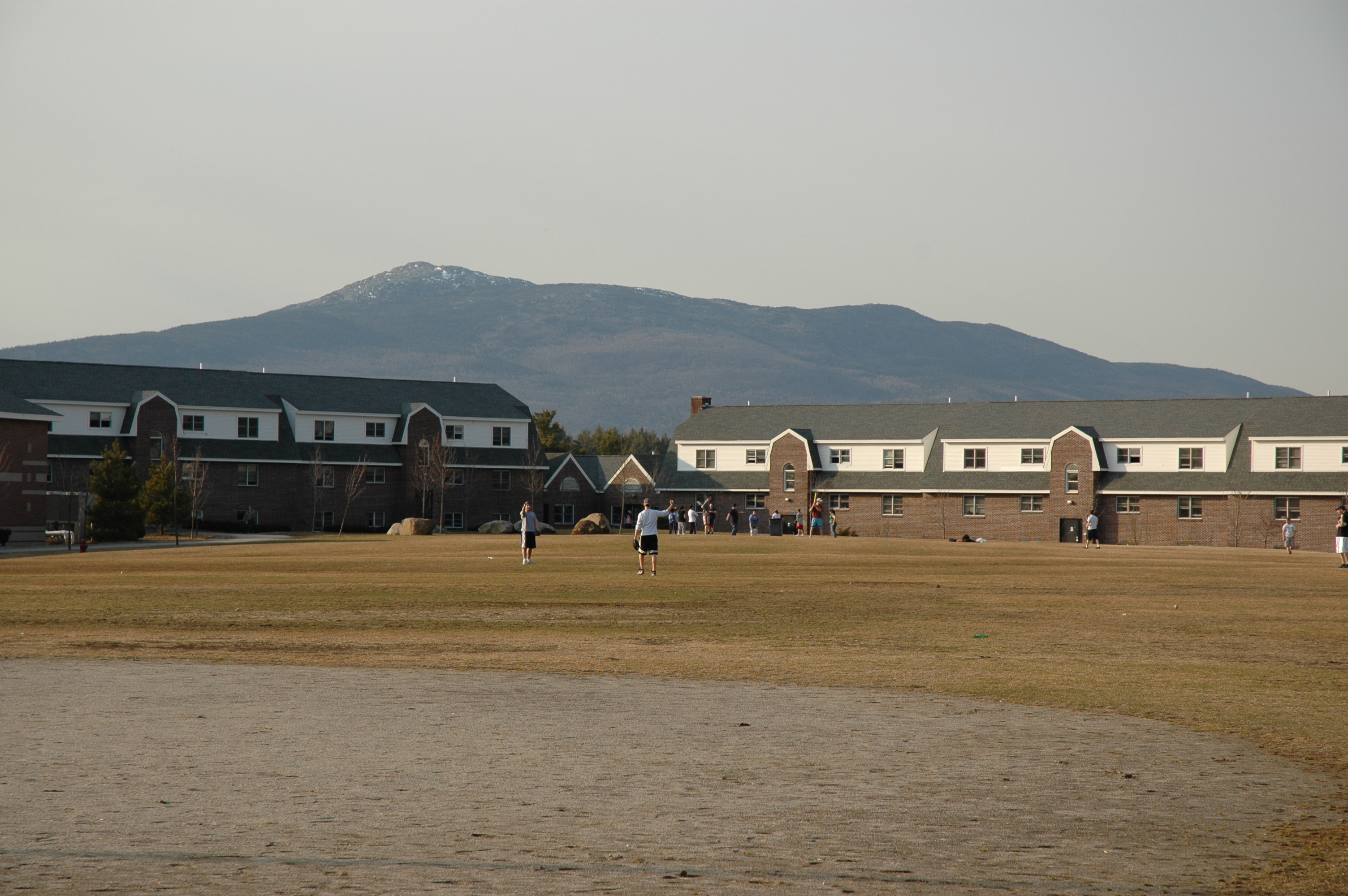 Mount Monadnock, as seen from Franklin Pierce University.